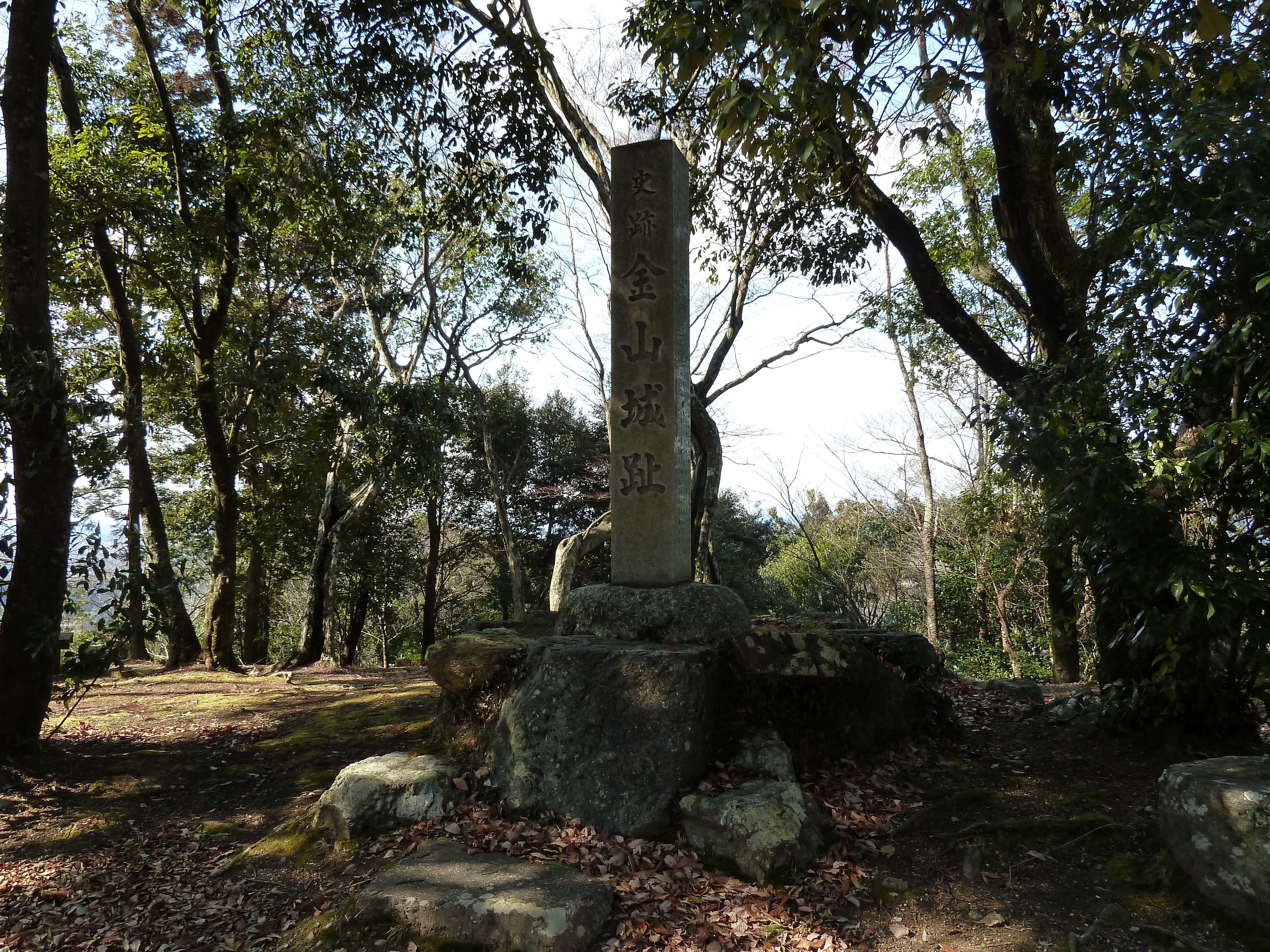 兼山城の石碑